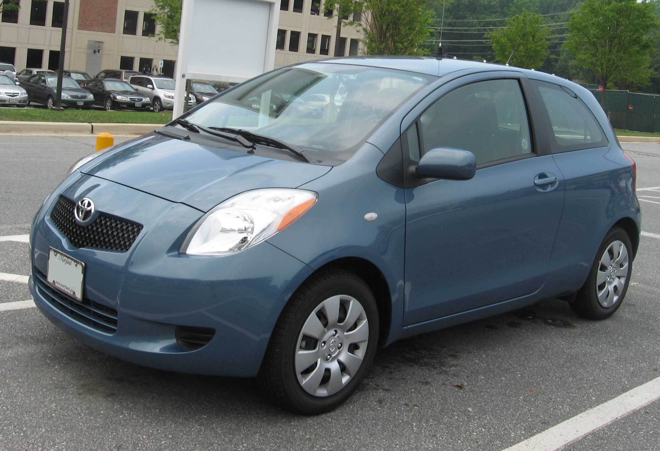 2007 Toyota Yaris photographed in USA.